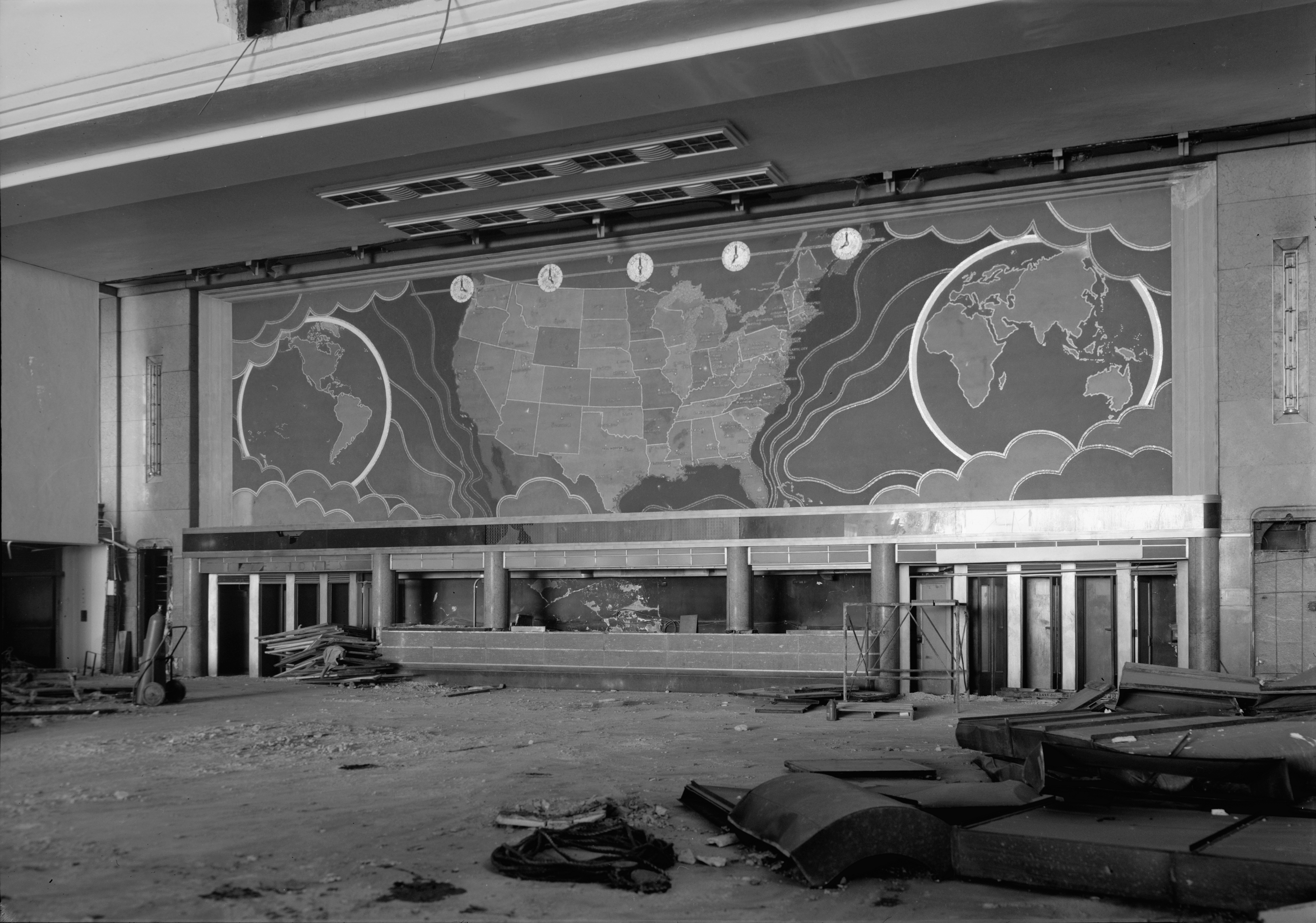 Cropped border jpg copy of File:INTERIOR VIEW OF INFORMATION COUNTER PRIOR TO DEMOLITION - Cincinnati Union Terminal, 1301 Western Avenue, Cincinnati, Hamilton County, OH HABS OHIO,31-CINT,29-54.tif.